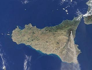 The height and southward extent of the ash plume emanating from Sicily's Mount Etna volcano on October 27 are captured in these four image panels from the Multi-angle Imaging SpectroRadiometer (MISR). Mount Etna, Europe's most active volcano, was revived when a series of intermittent minor earthquakes shook the eastern edge of Sicily and parts of mainland Italy during September and October. The eruption of Etna sent a thick blanket of volcanic ash over much of eastern Sicily, sparked forest fires, and destroyed or damaged hundreds of buildings with lava flows and pyroclastic activities. October 27, 2002, marks the start of the second period of intense activity from Etna in little over a year. The previous period of activity occurred during July and August 2001, during which time MISR also observed extensive ash plumes emanating from the volcano.